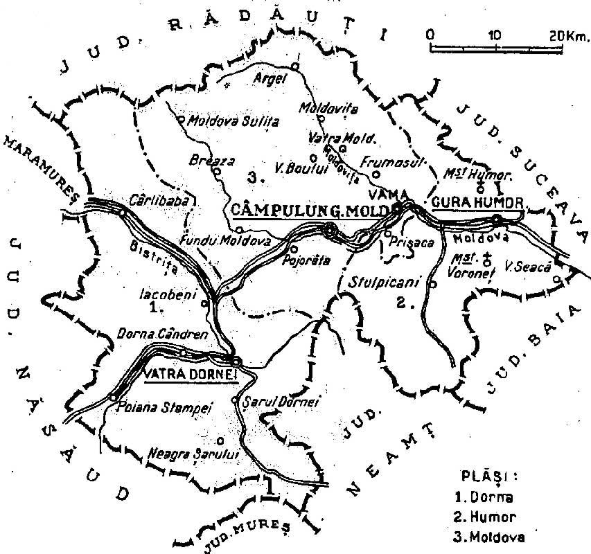 Map of Câmpulung interwar county, Kingdom of Romania (1938).